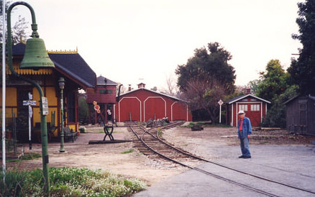 Here is the car barn (middle) seen in my previous contemporary photo. In this vintage online shot the railroad was still up and running. This also includes the other buildings, specifically the station and water tower (left).